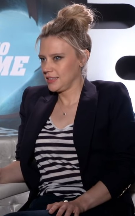 The stars of action comedy The Spy Who Dumped Me, Mila Kunis and Kate McKinnon, reveal the moments they couldn’t help LOLing at on set, what they love most about each other, the superhero Kate is dying to play and the ONE thing it will take for Mila Kunis to join a big superhero movie.